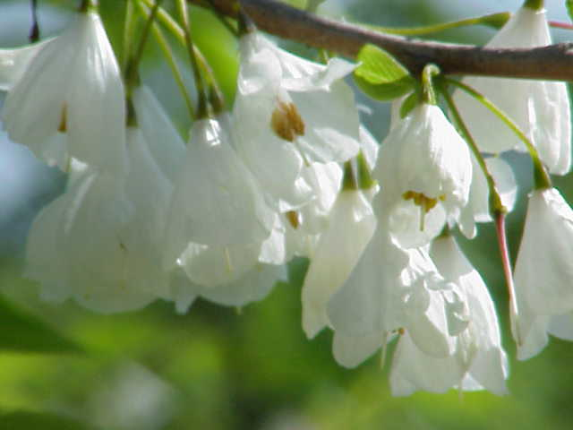 Species: Halesia carolina Family: Styracaceae Image No. 3